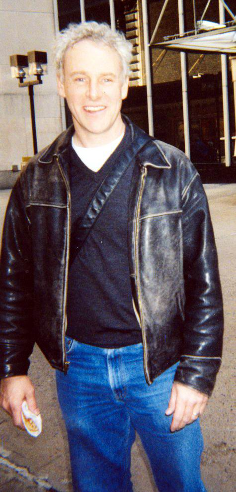 Picture of John Dossett. I personally took this picture in March 2004, in New York City, New York (in Shubert Alley).